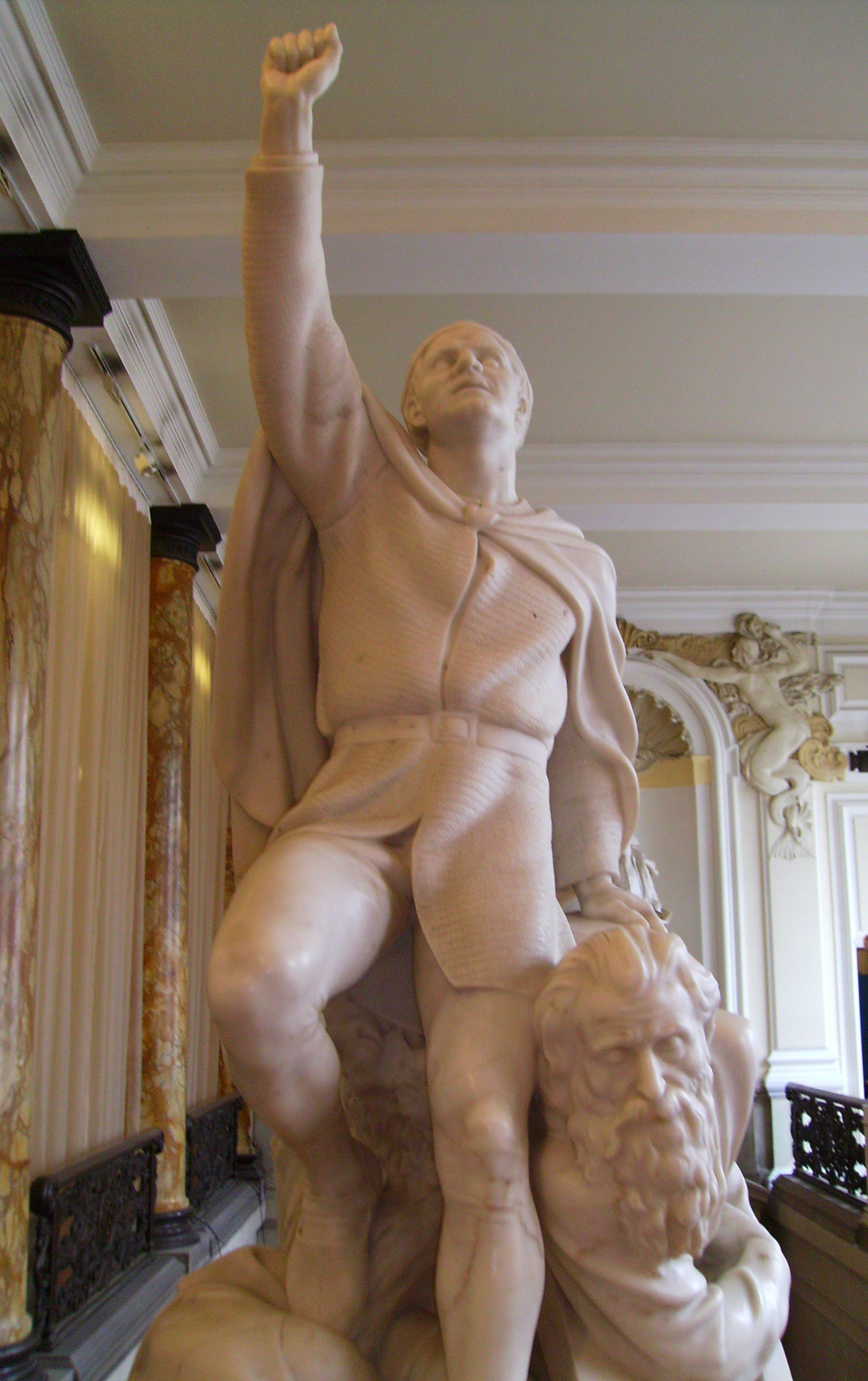 Sculpture by Henry Pegram of Llywelyn the Last at City Hall, Cardiff, Wales.